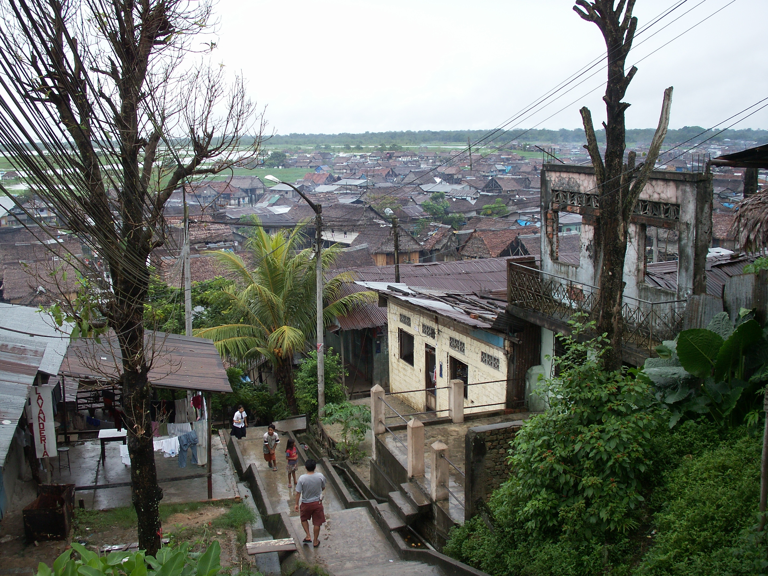 View from Belen Market. Photograph by Jorge Mori.